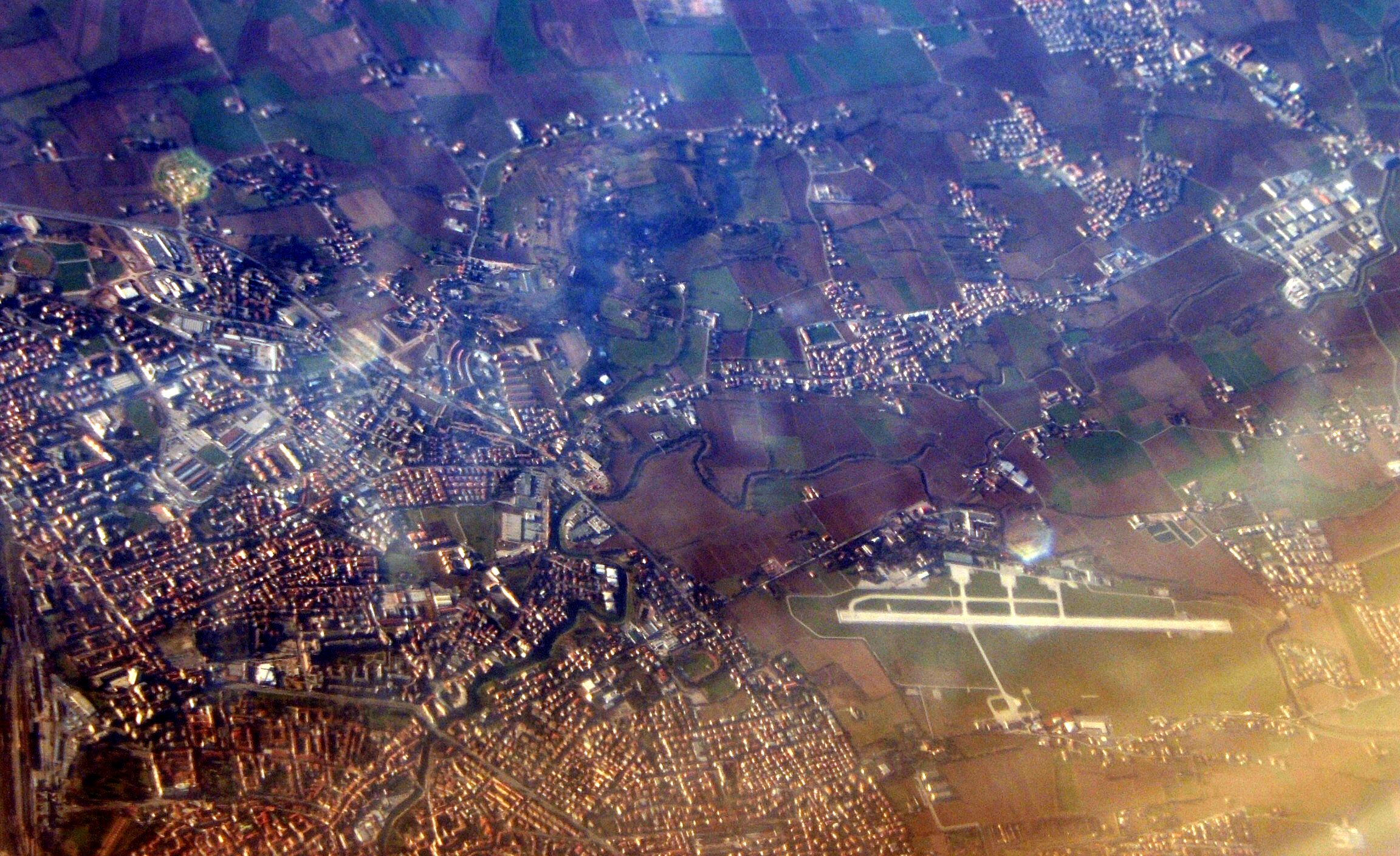 Aerial view of Vicenza, Italy with Vicenza Airport "Tommaso Dal Molin"